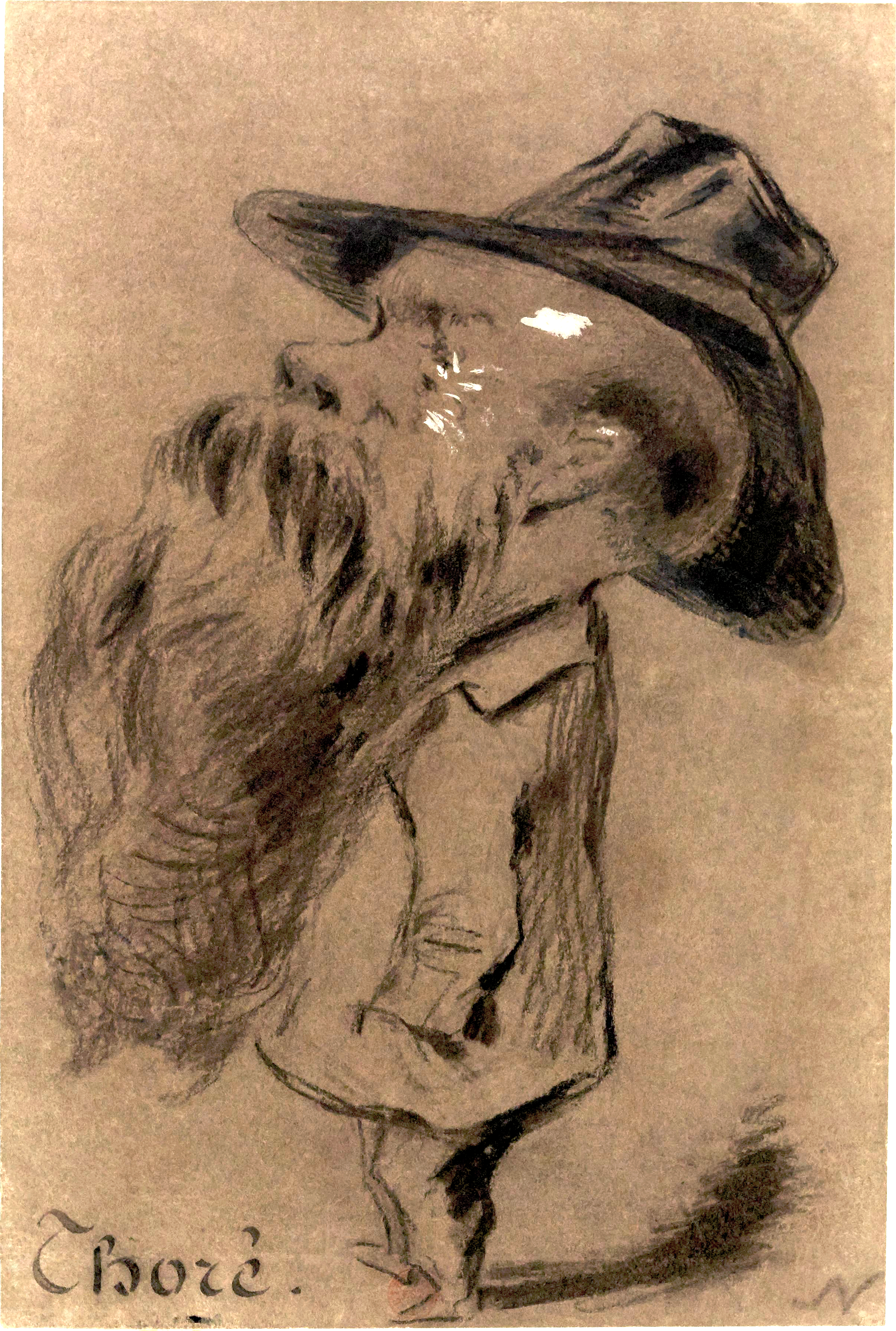 Caricature of Théophile Thoré-Bürger (1807-1869), French art critic, by Nadar